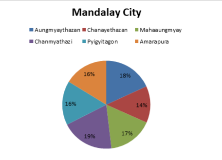 The pie chart of the population of Mandalay City Townships in 2014.